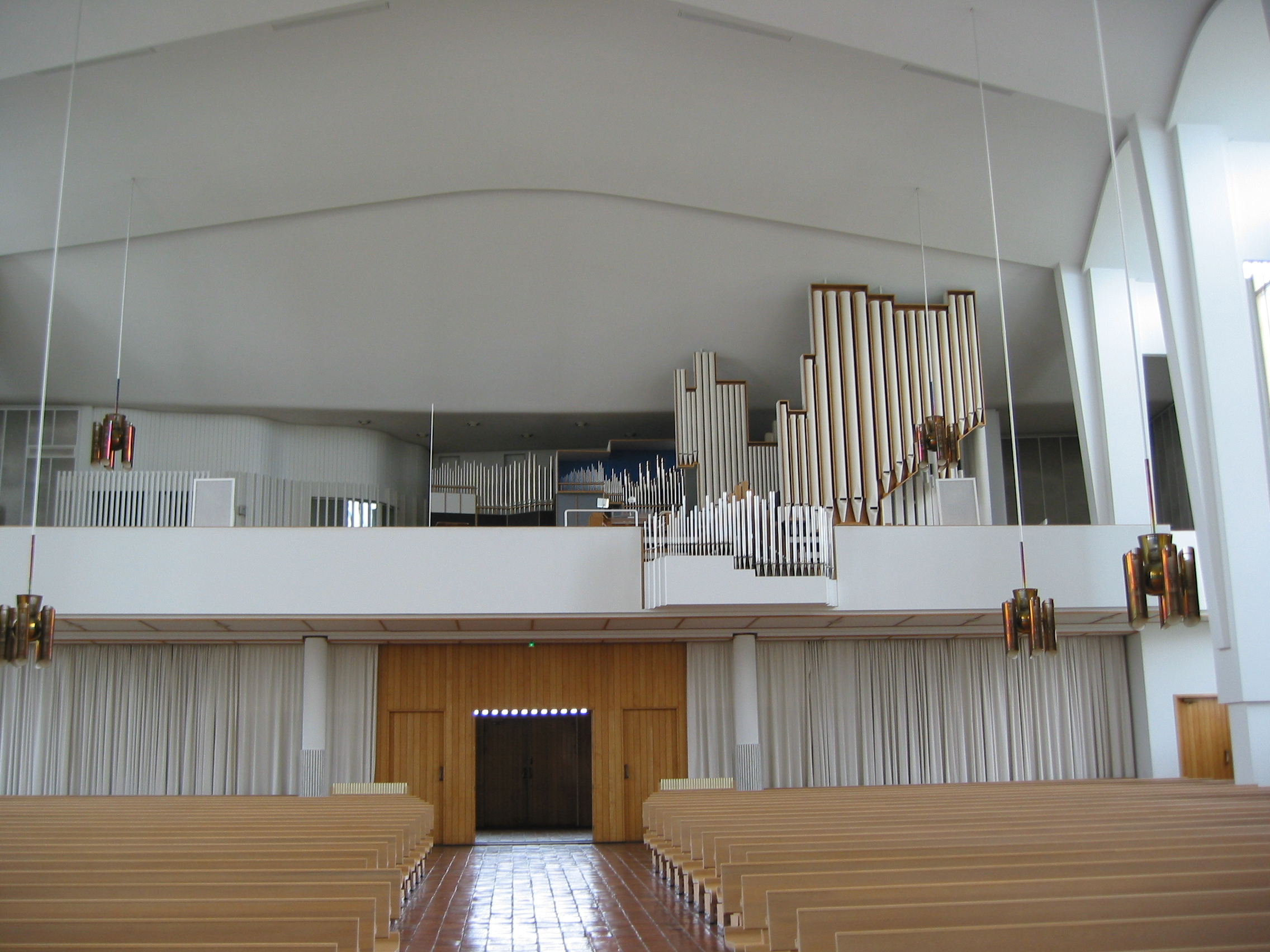 Organs of Lakeuden Risti church in Seinäjoki, Finland